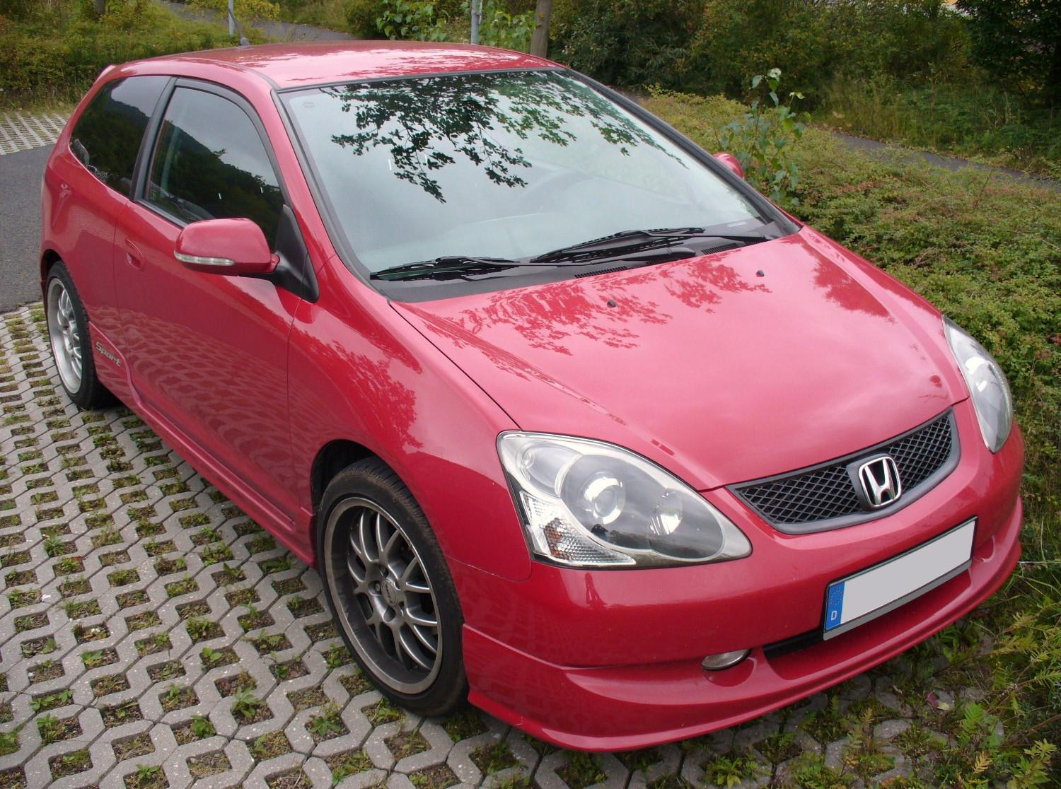 Honda Civic Sport